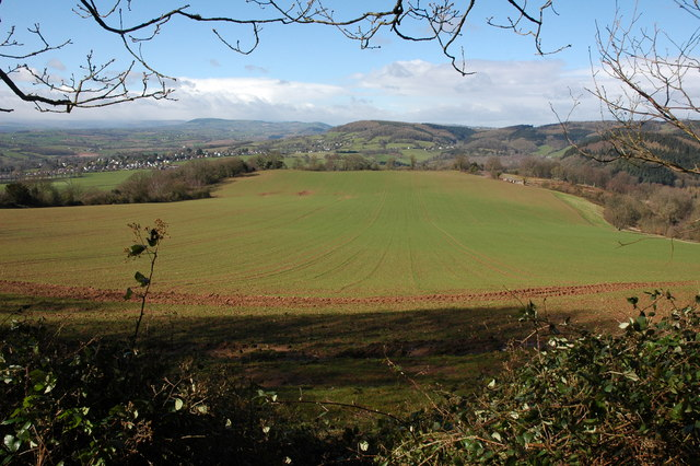 An arable field and the Welsh borderlands View from the edge of Beaulueu Wood over the borderlands of Monmouthshire and south Herefordshire. Part of Monmouth can be seen in the middle distance on the left.